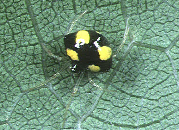 female Theridula gonygaster from Okinawa.